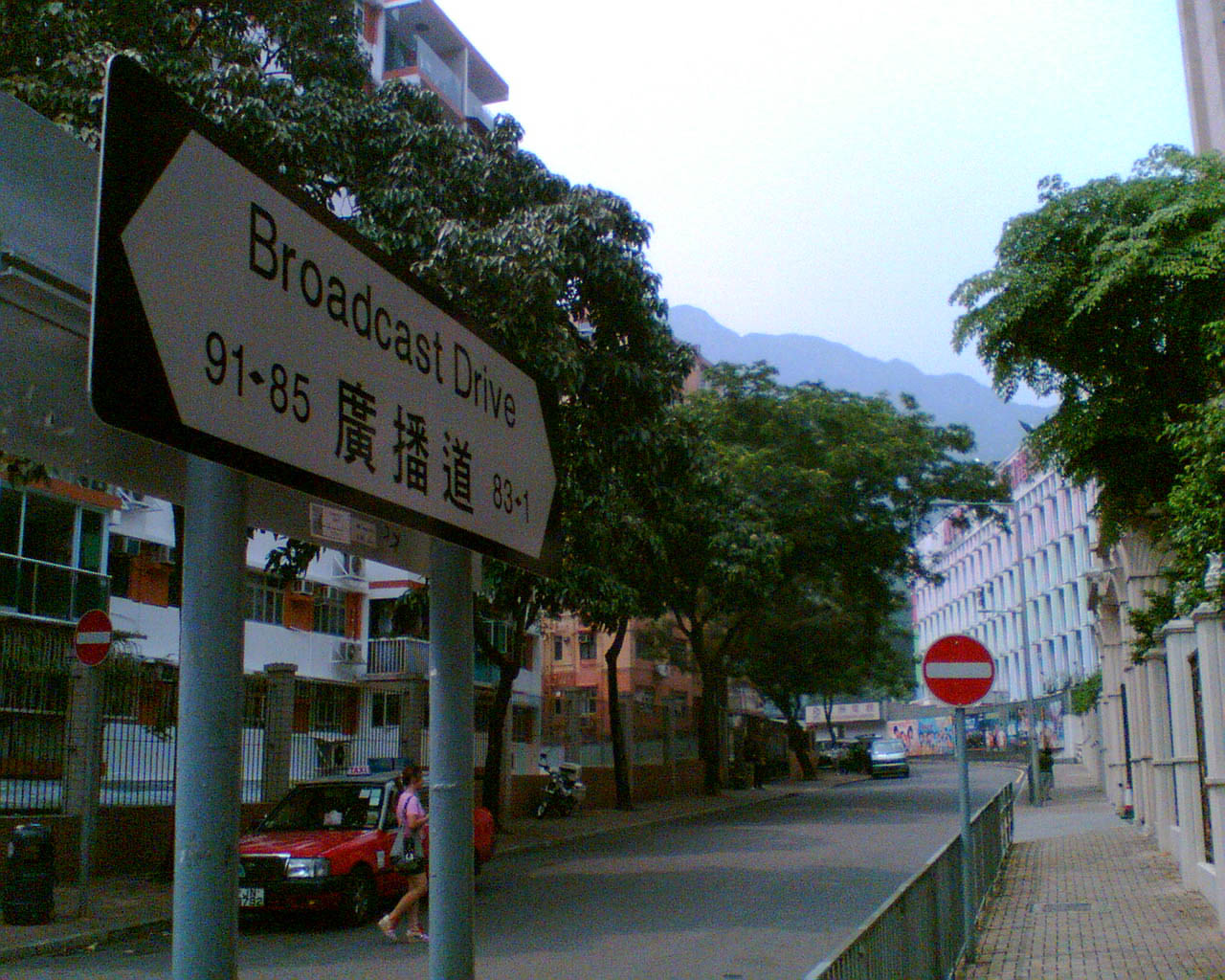 The road sign for Broadcast Drive (left), with the old building of Asia Television Limited (right) in the background.